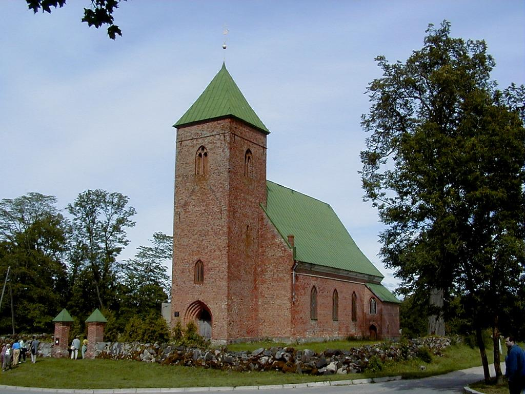 Ēdole Evangelical Lutheran ChurchLatviešu: Ēdoles evaņģēliski luteriskā baznīca